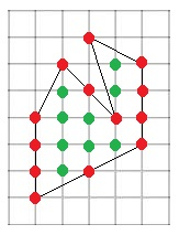 an example of Pick's Theorem